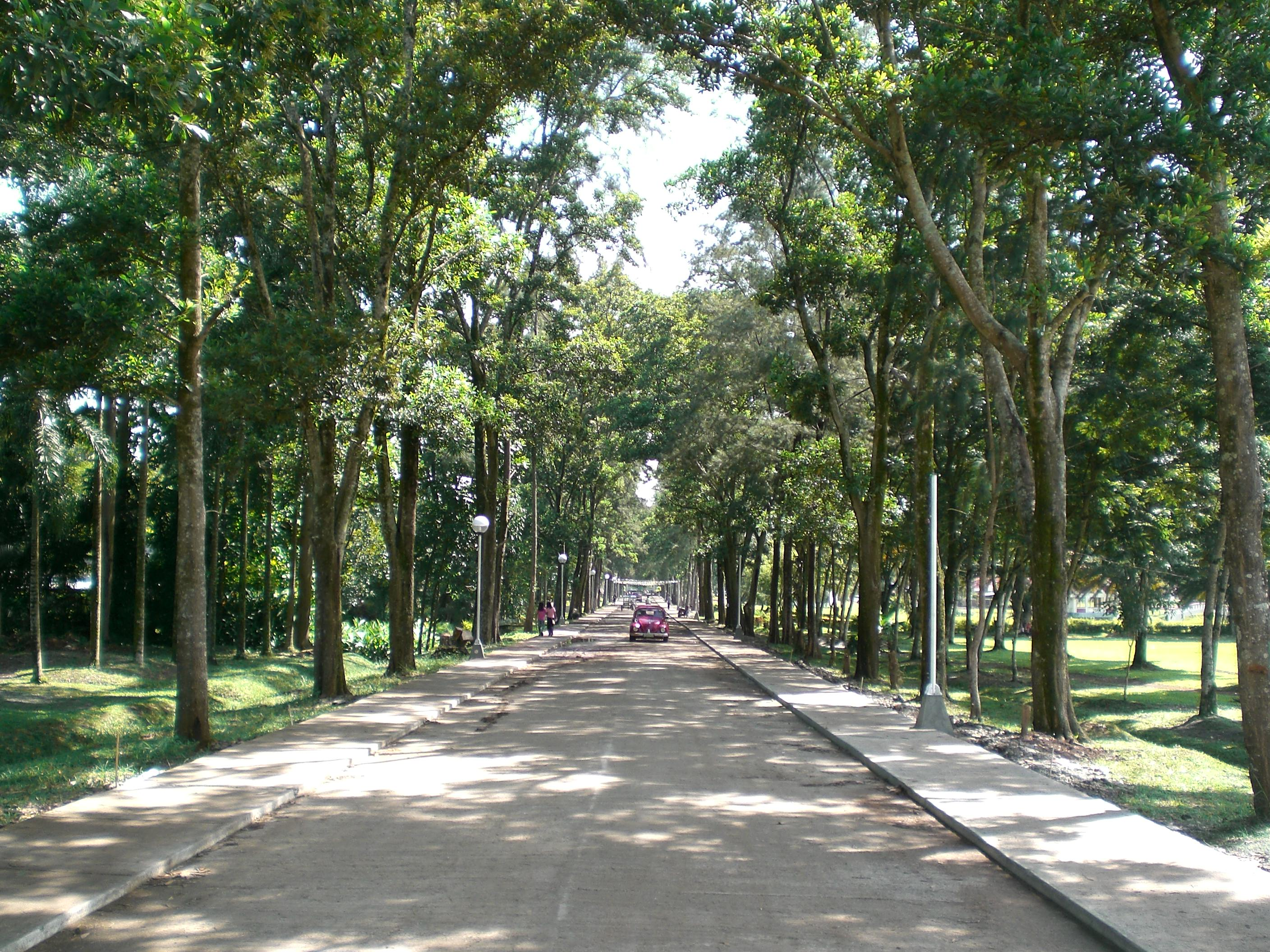 Central Mindanao University campus